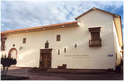 Pre-Columbian Art Museum Cusco, Peru. Building facade.